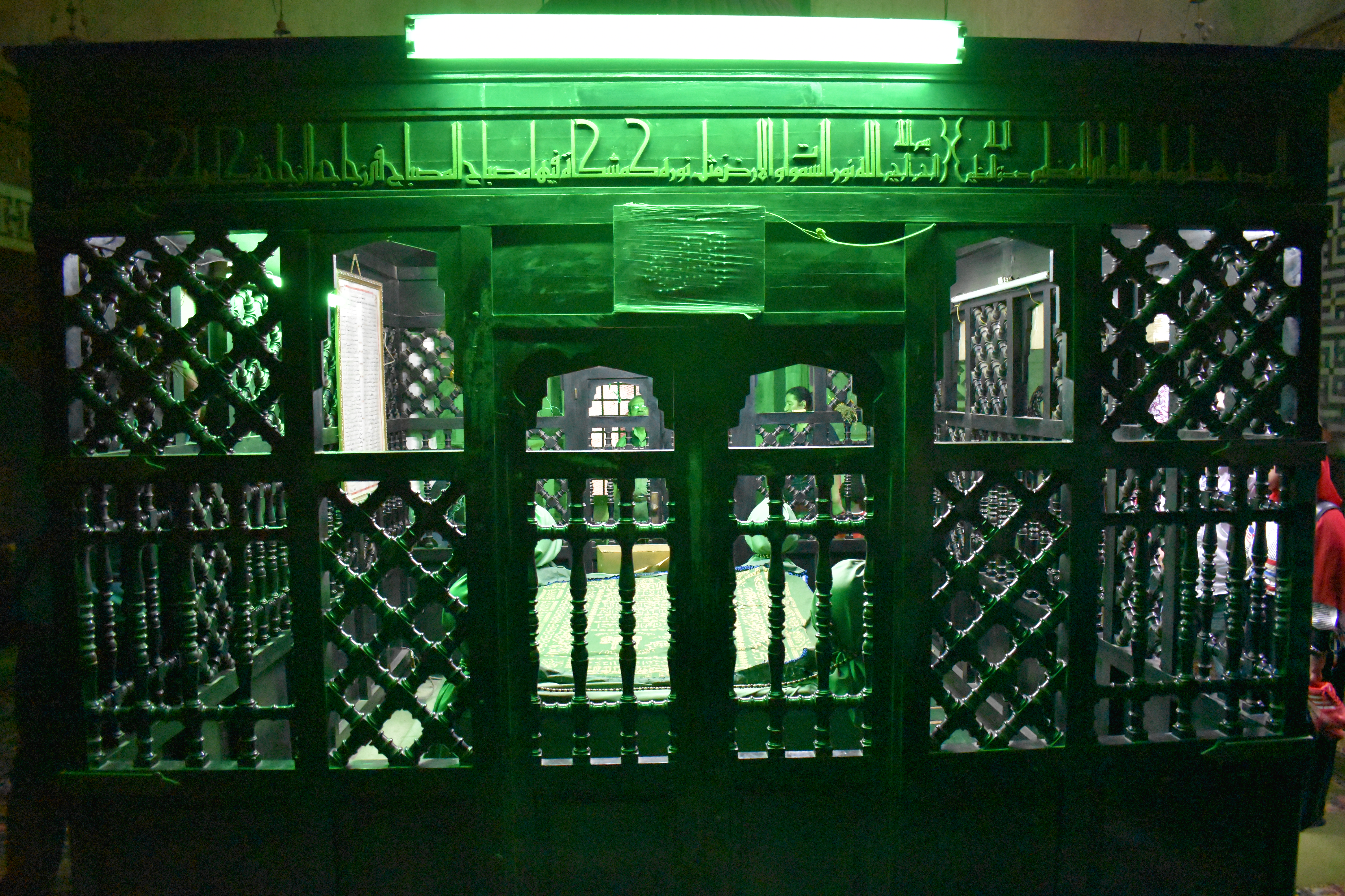 Khanqah Baibars Al Jashankir, photo by Hatem Moushir